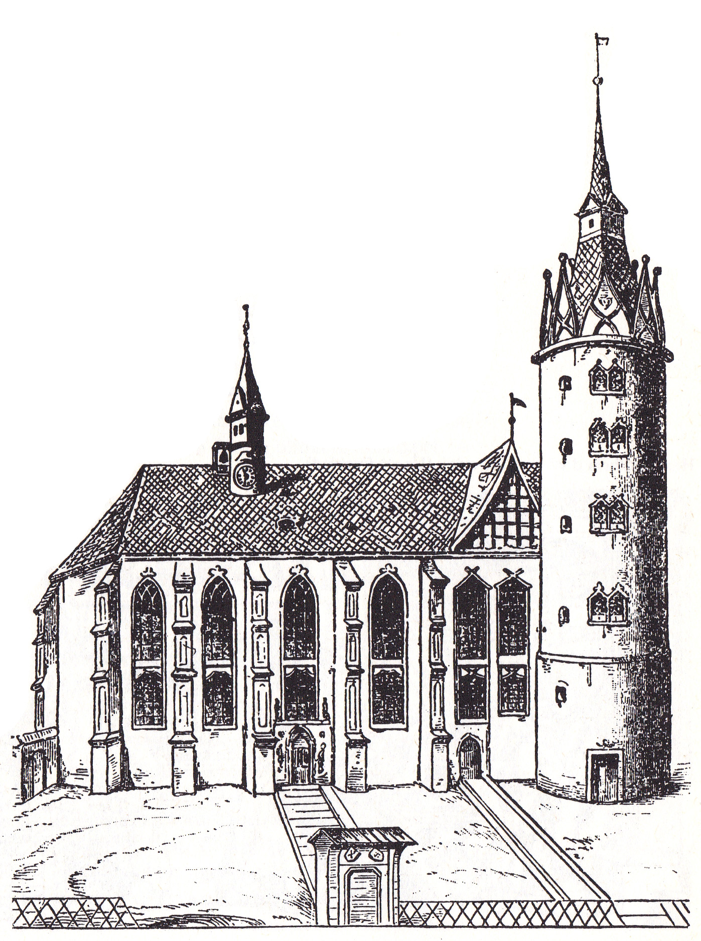 Wittenberg Schlosskirsche.